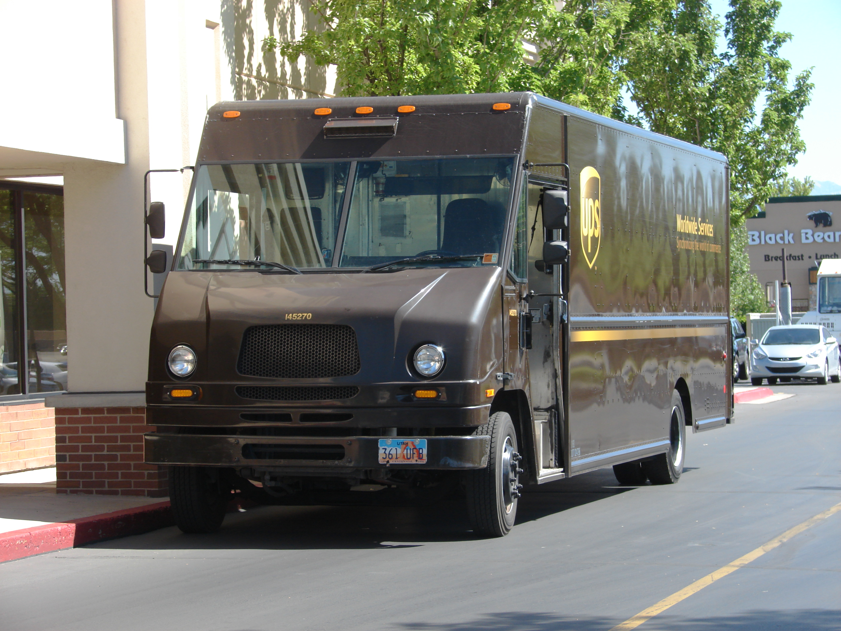 A typical truck used by United Parcel Service (UPS) in the United States